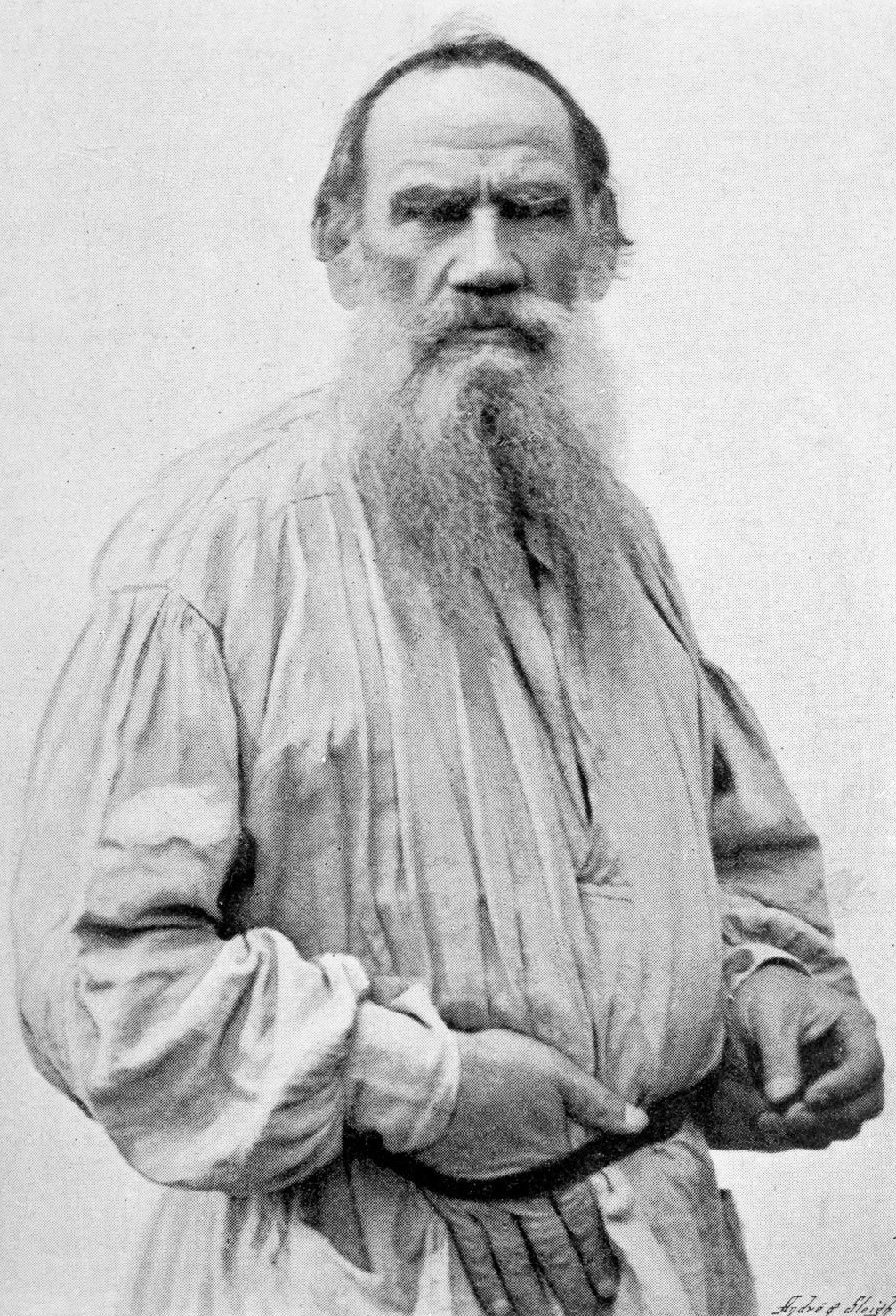 Leo Tolstoy 1895.